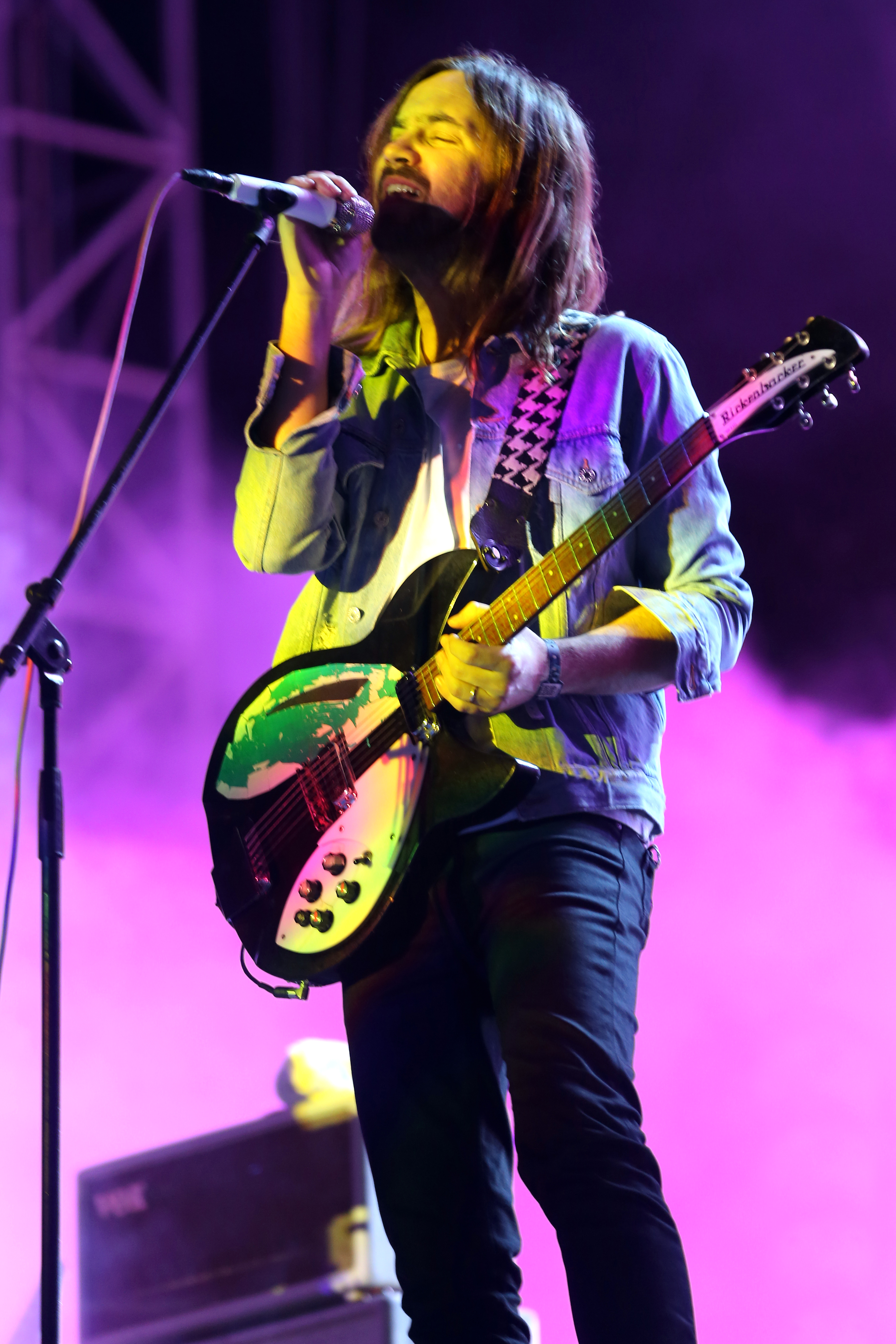 Tame Impala at Southside Festival 2019